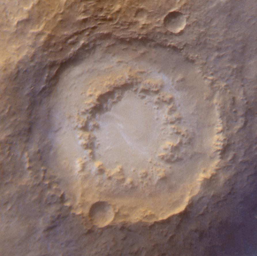 Lowell crater showing frost on its floor.Original caption released with the image: The Mars Global Surveyor Mars Orbiter Camera (MOC) wide angle system is used to monitor changes in martian weather and the seasonal coming and going of polar frost. These four wide angle pictures of craters in both the northern and southern middle and polar latitudes of Mars show examples of frost monitoring conducted by the MOC in recent months. It is spring in the northern hemisphere, and frost that accumulated during the most recent 6-month-long winter has been retreating since May. Examples of frost-rimmed craters include Lomonosov (top, left) and an unnamed crater farther north (top, right). The unnamed crater has a patch of frost on its floor that--based on how it looked during the 1970s Viking missions--is expected to persist through summer. It is autumn in the southern hemisphere, and frost was seen as early as August in some craters, such as Barnard (bottom, left); later the frost line moved farther north, and we began to see frost in Lowell Crater (bottom, right) in mid-October. For a view of what Lomonosov Crater looked like during northern winter, see "The Frosty Rims of Lomonosov Crater in Winter." This is a series of 4 images. Each image is a composite of two pictures obtained at the same time, a red wide angle view and a blue wide angle view. In each picture, north is toward the top and sunlight illuminates the scene from the upper left (for southern hemisphere) or lower left (for northern hemisphere).